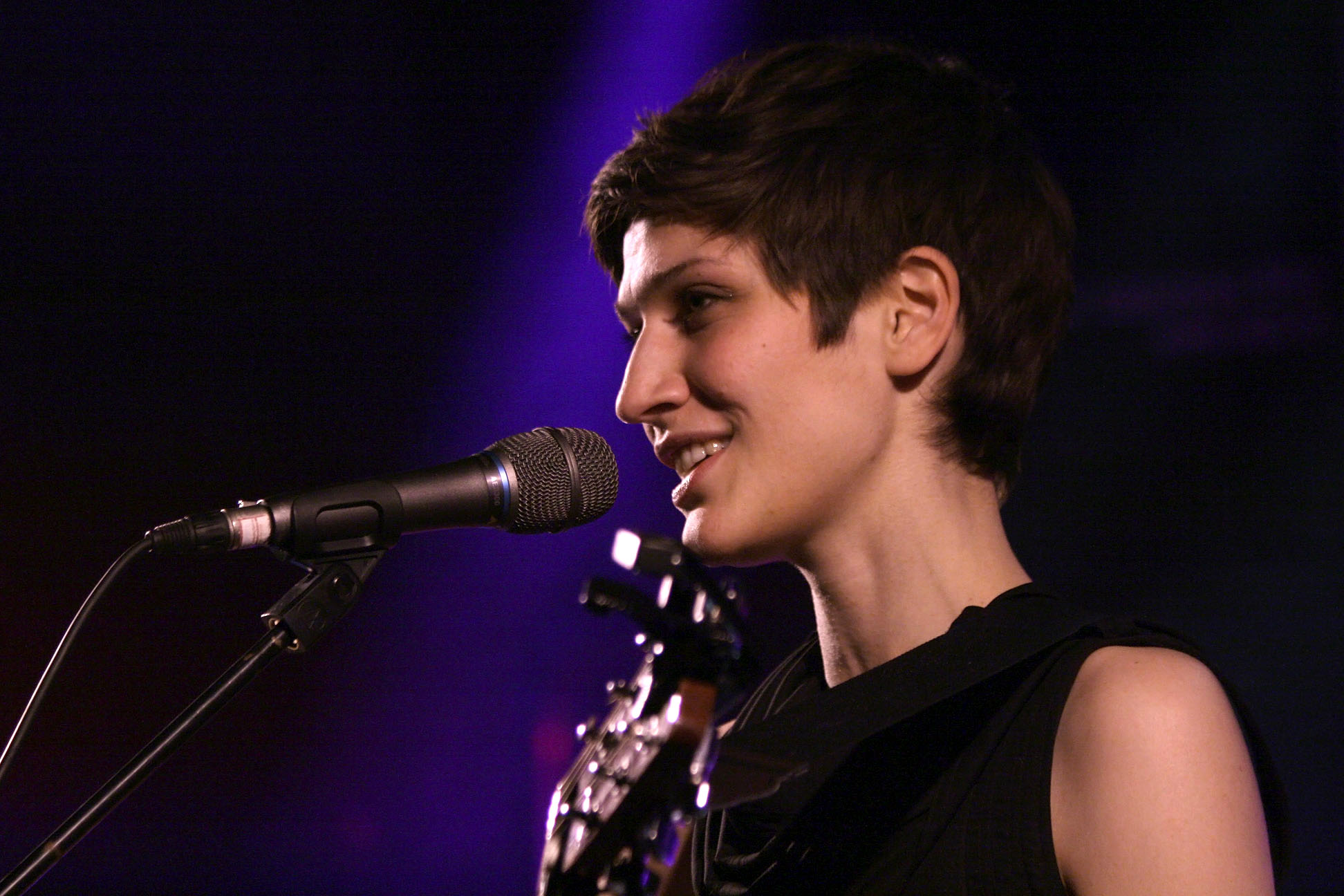 The Alin Coen Band - concert at the cultural center WUK in Vienna.